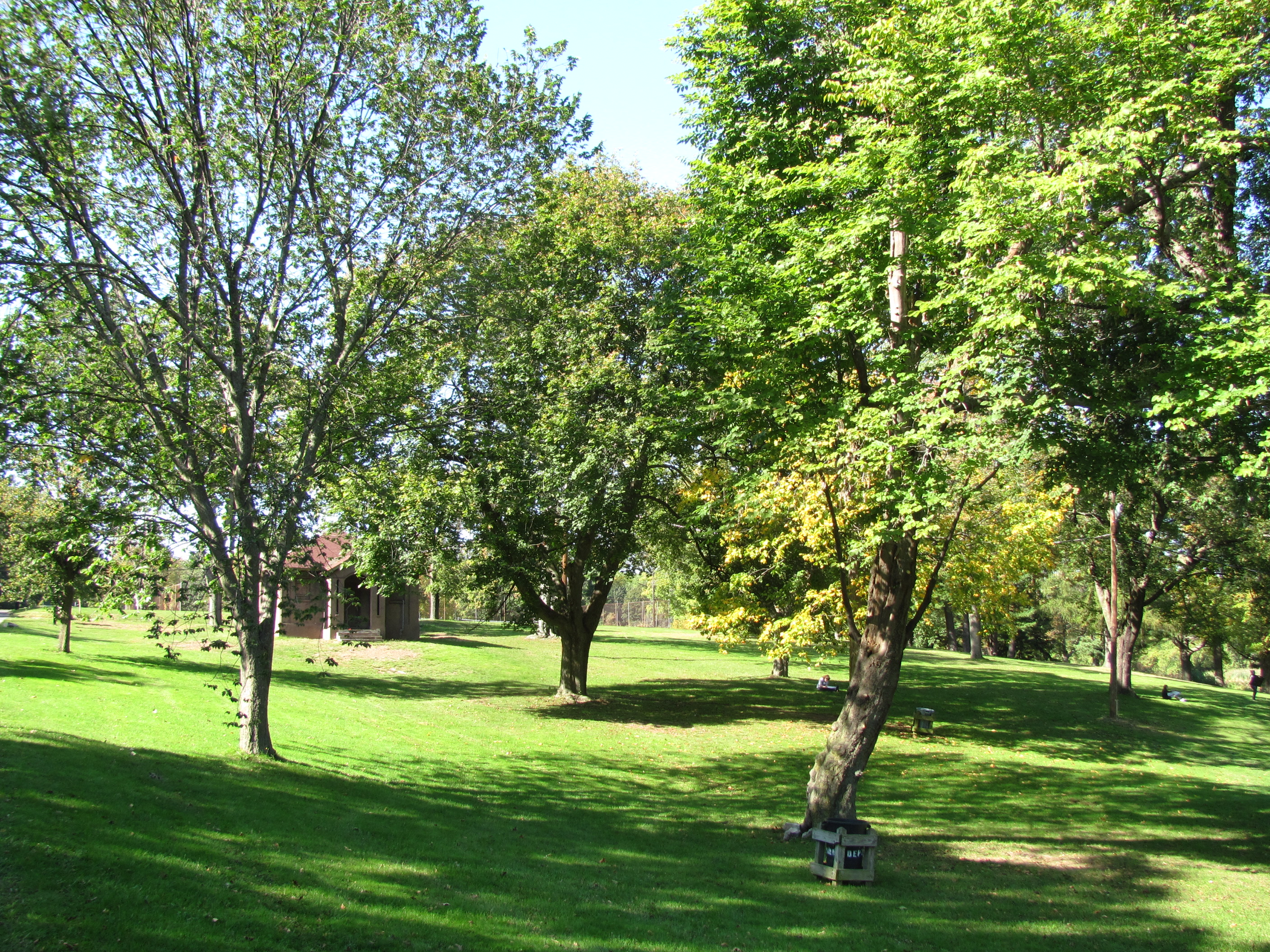 Institute Park, Worcester Massachusetts